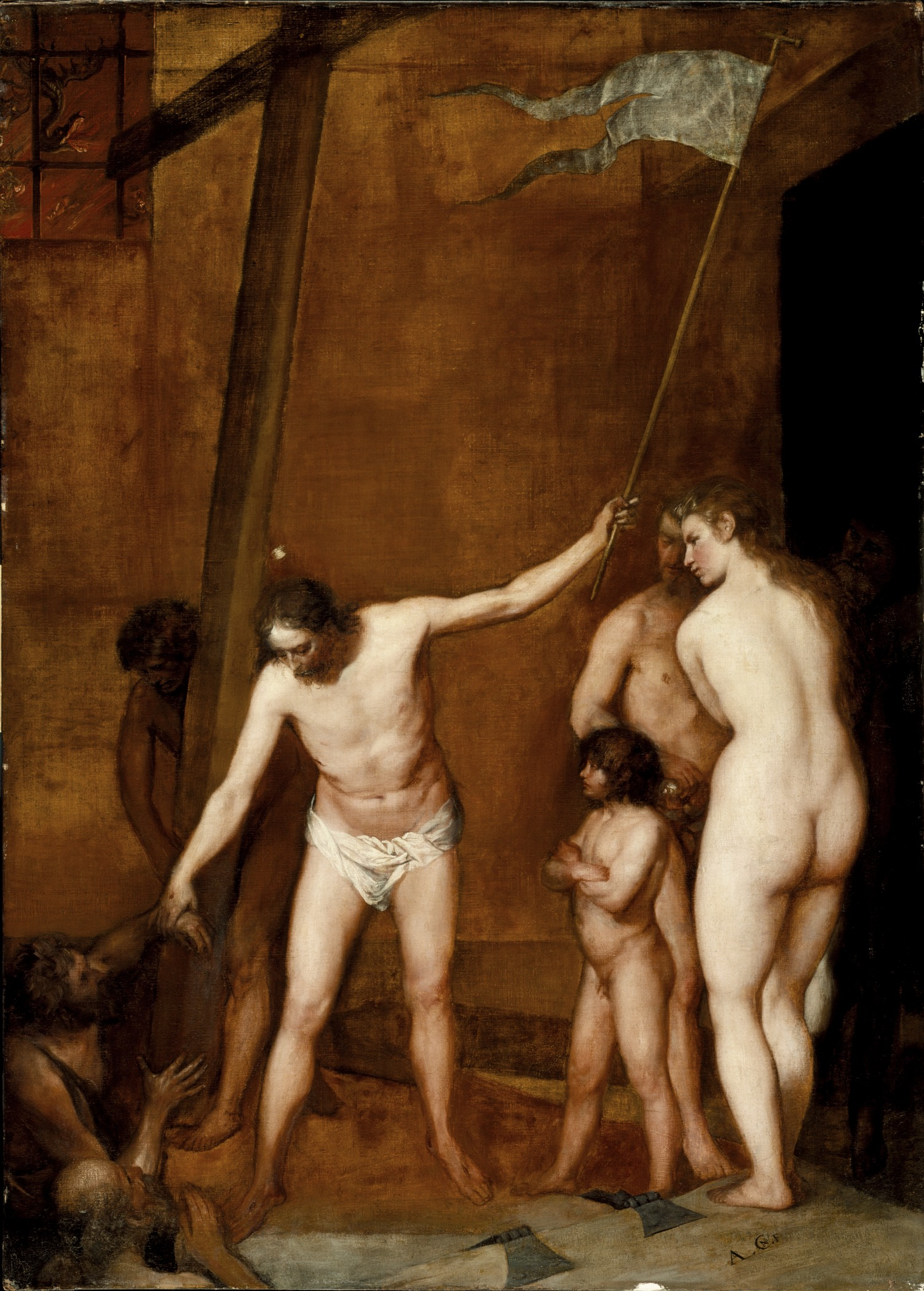 Spain, circa 1655 Paintings Oil on canvas Gift of Bella Mabury (M.48.5.1) European Painting Currently on public view: Ahmanson Building, floor 3